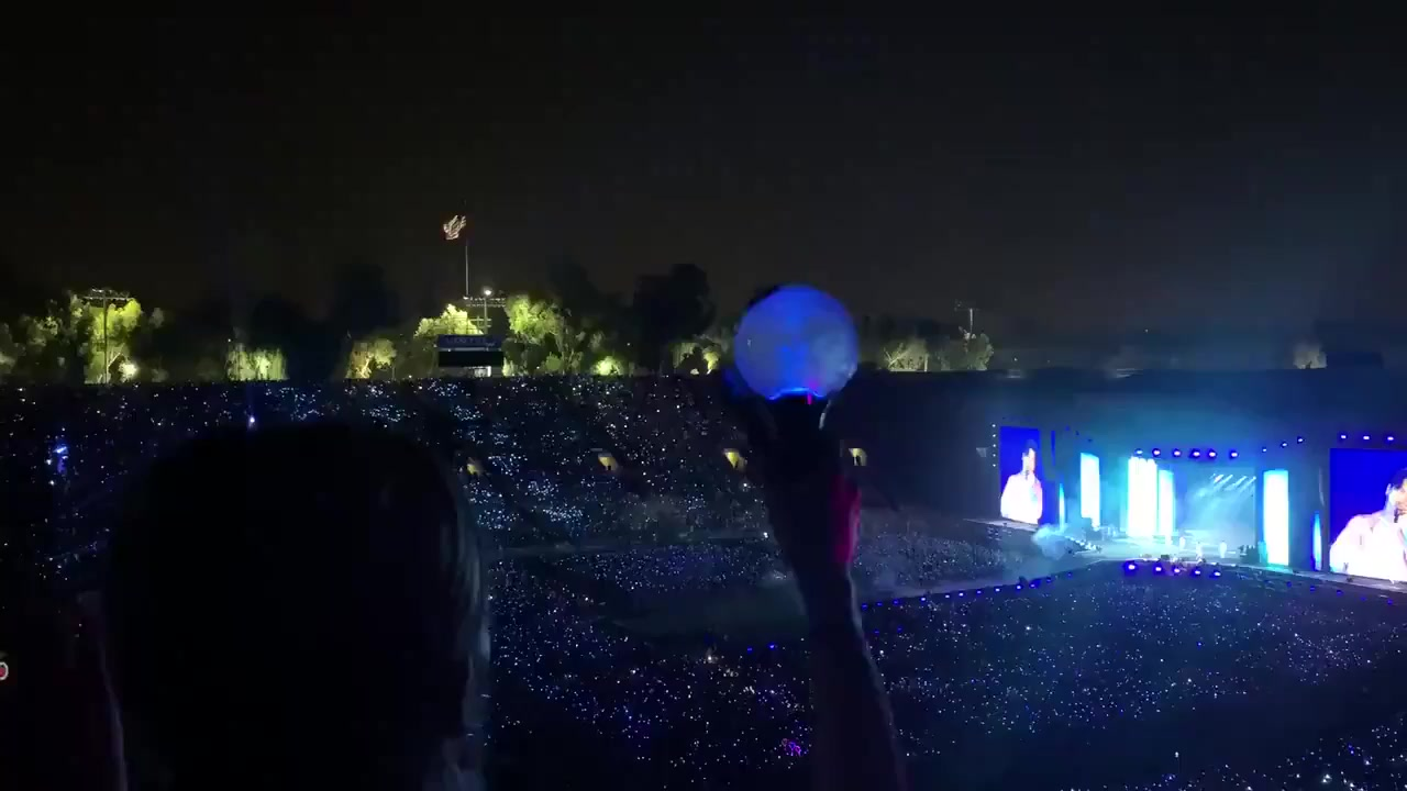 BTS Love Yourself - Speak Yourself tour at Rose Bowl, Pasadena (California), 4 May 2019